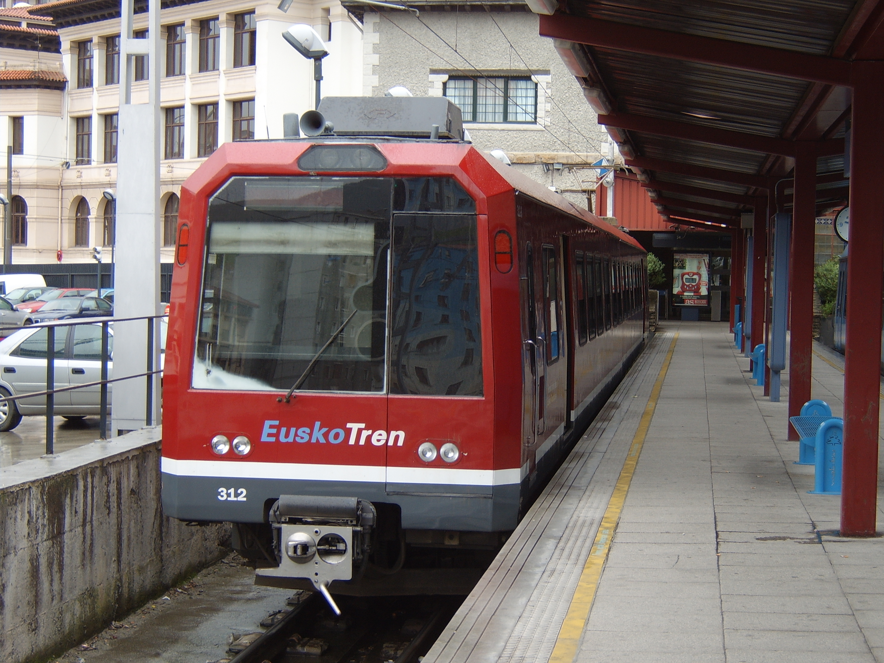 EuskoTren (ET) operate services in the Bsaque region of Northern Spain and is owned by the regional government. Metre gauge and fully electrified, the trunk route is Bilbao via San Sebastian/Donostia through to Hendaye just over the border in France. Seen here at Bilbao Atxuri is one of three class 300 2-car EMUs painted in a red livery with better seating and WCs for semi-fast trains. Taken on 23 March 2006 no. 312 is seen ready to depart on 09:34 to San Sebastian.